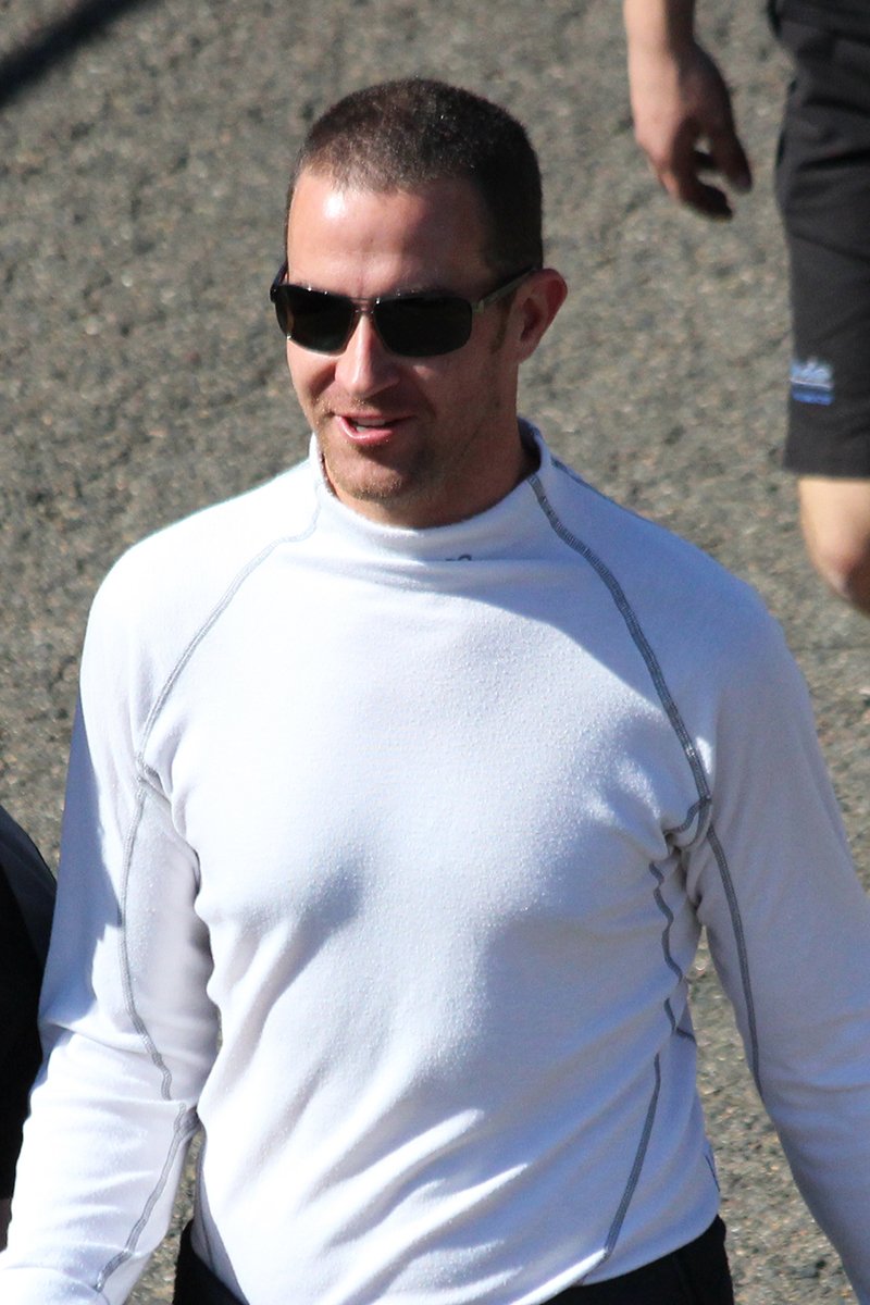 Alex Davison at the 2016 Porsche Rennsport Motor Racing Festival.